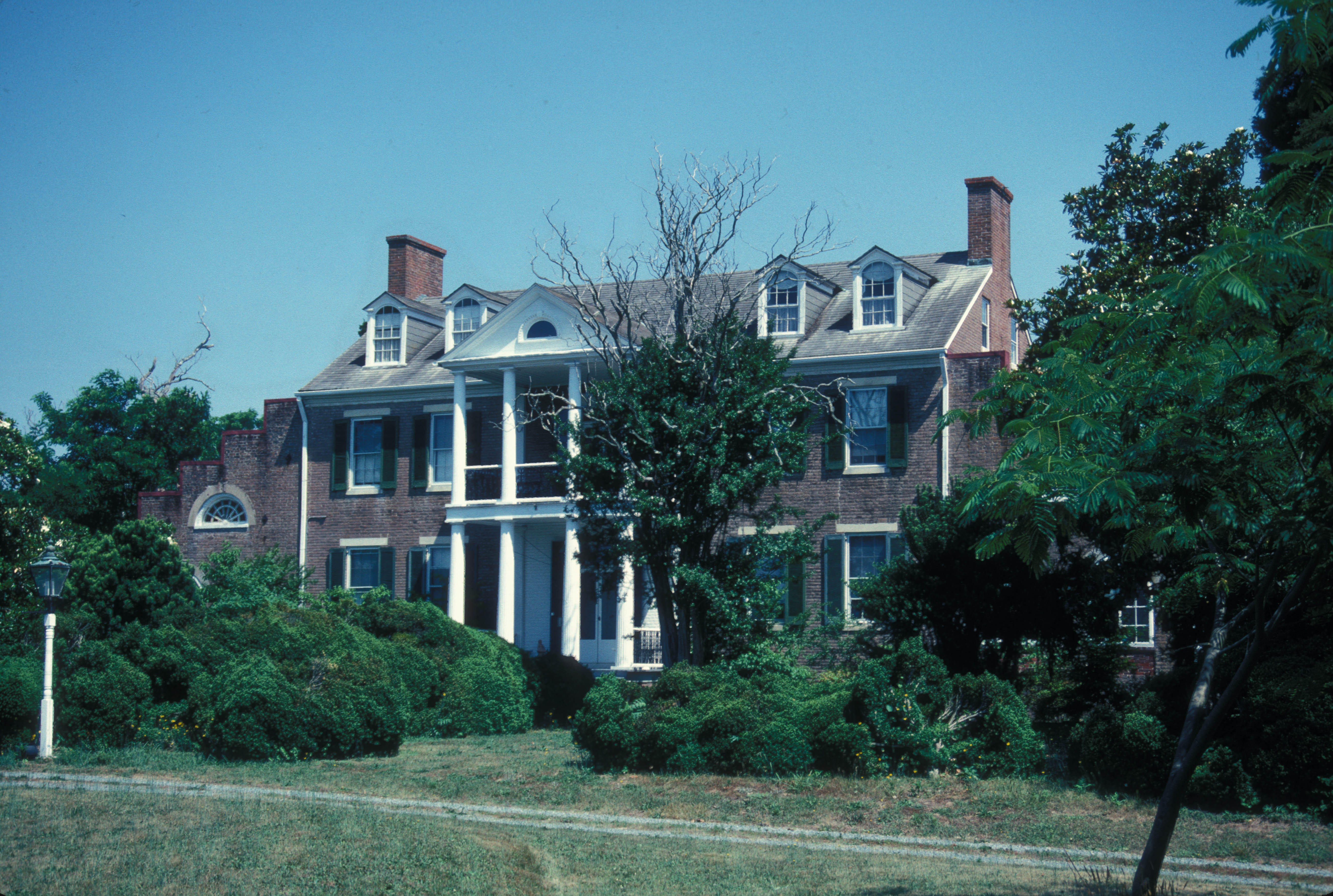 1828; BUILT BY WILLIAM HARDING ON THE SITE OF A HOUSE CALLED BLACK POINT IN WHICH JOHN HEATH, FOUNDER OF HEATHSVILLE AND ALSO FOUNDER OF PHI BETA KAPPA SOCIETY LIVED